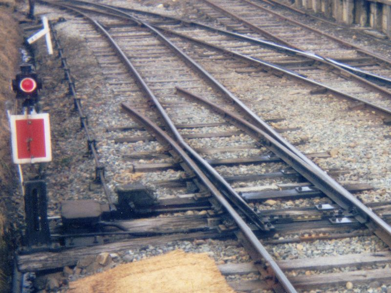 Derailment switch